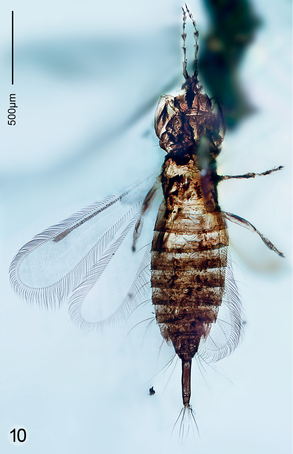 FIGURES 10–15. R. schizovenatus holotype female: (10) dorsal view